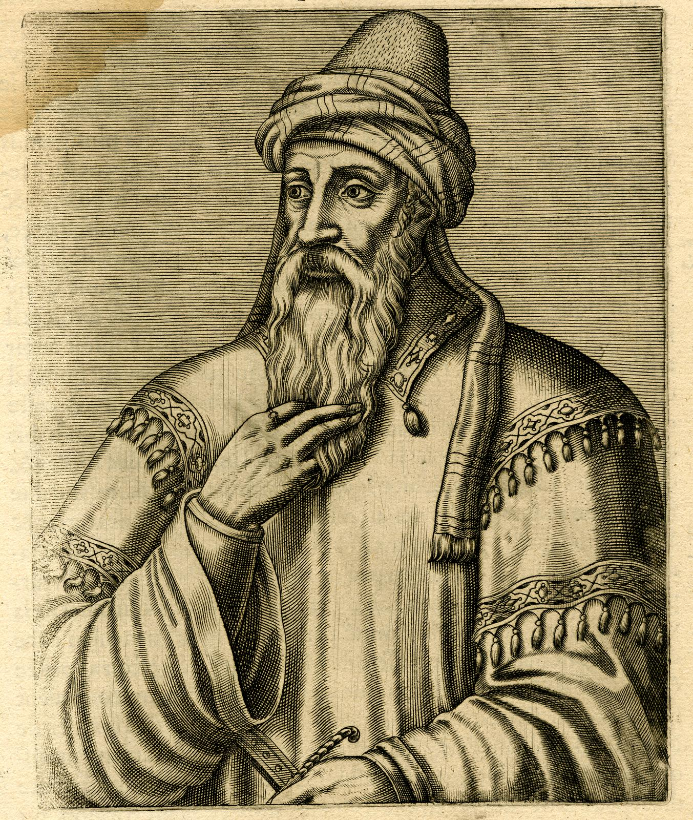 Portrait of Saladin, Sultan of Egypt and Syria, half-length, directed and looking to the left, bearded, wearing turban, right hand touching his beard; illustration to page 627 of Andre Thevet's "Les vrais pourtraits et vies des hommes illustres" (Paris: 1584) Engraving and etching